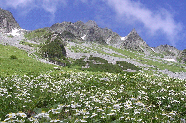 涸沢岳（3,110m、涸沢側から撮影・北アルプス）Mt. Karasawa-dake (Northern Alps of Japan)